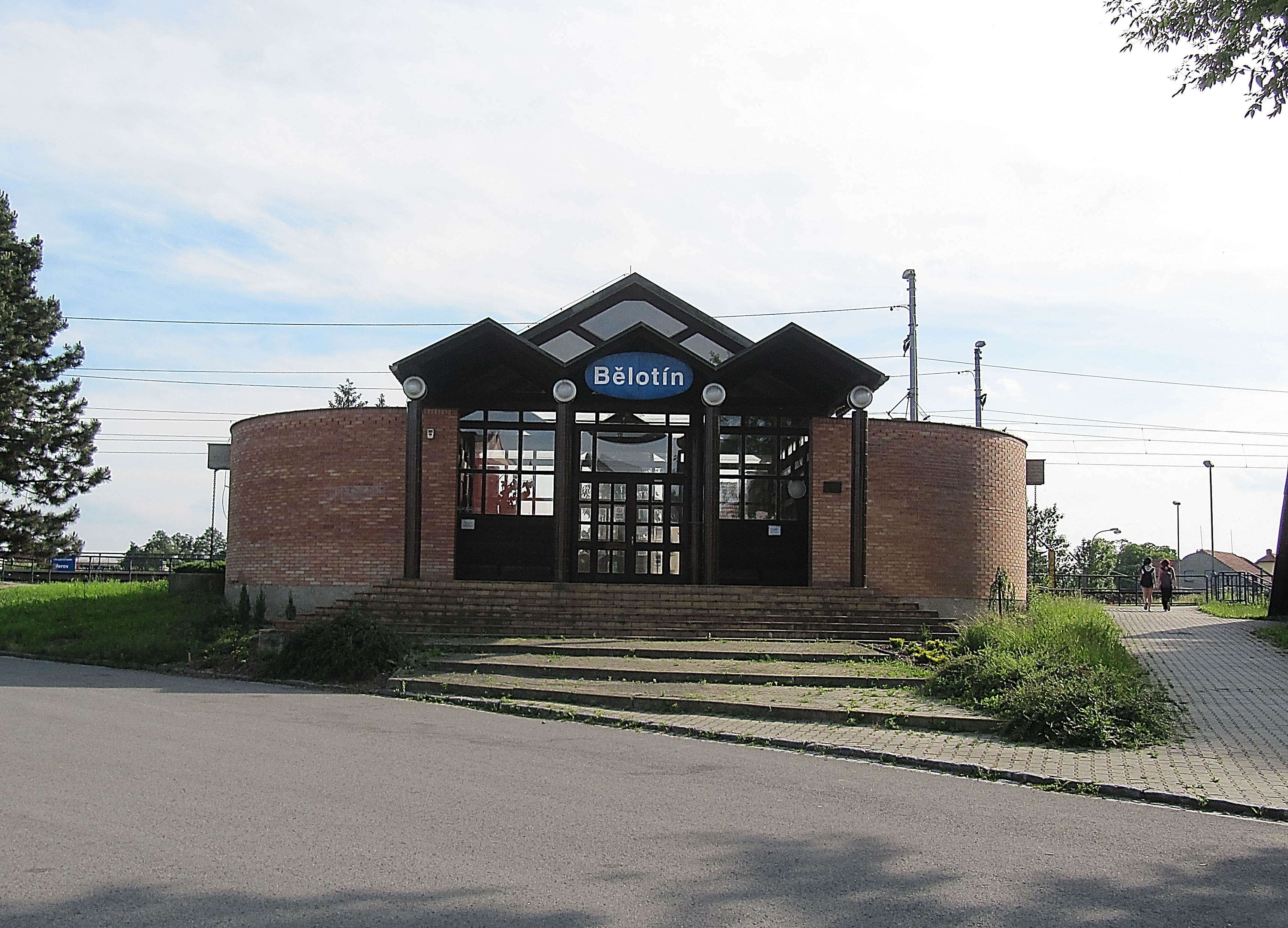 Bělotín, Přerov District, Czech Republic.